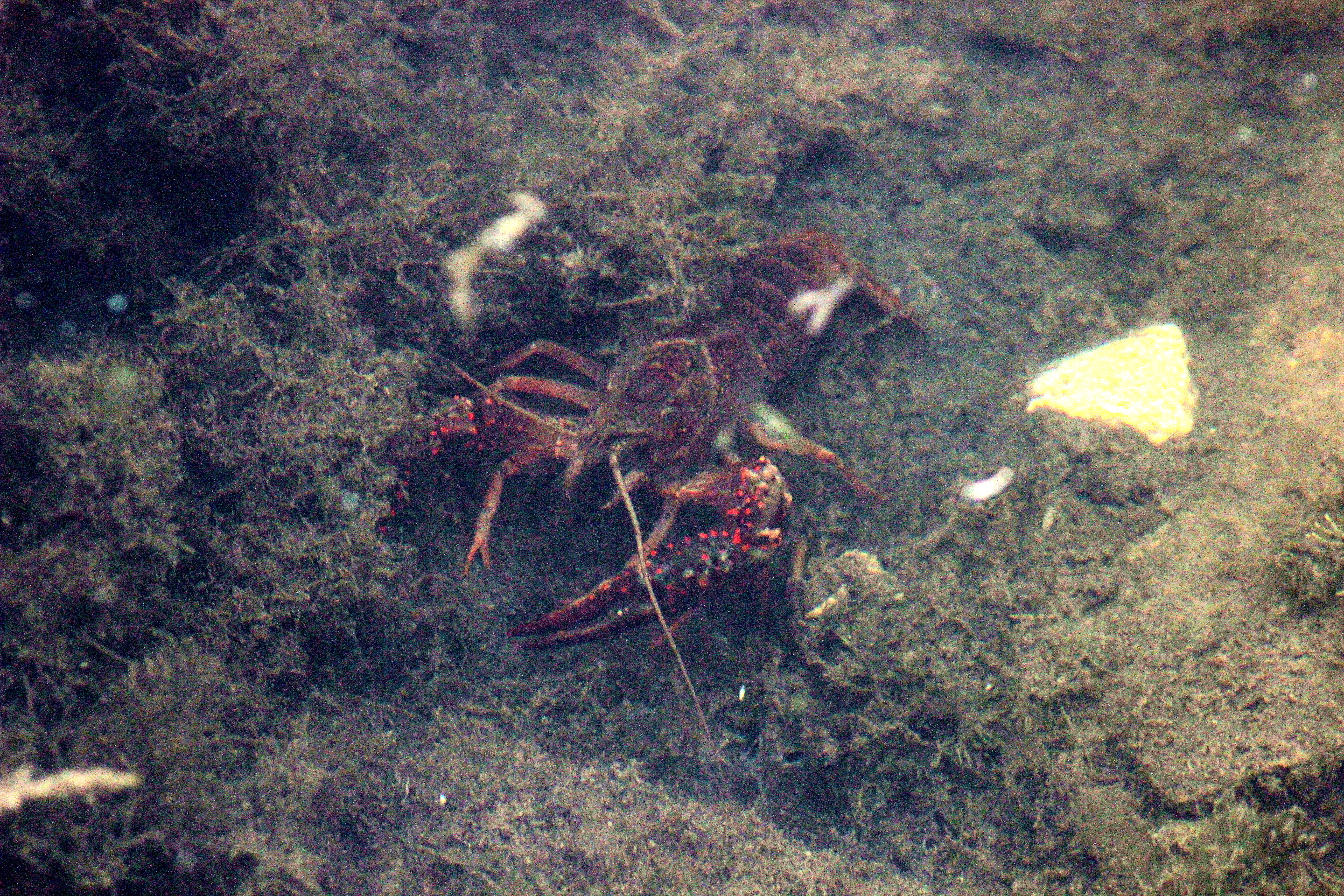 Crayfish at Ville d'Avray -contrast enhanced.